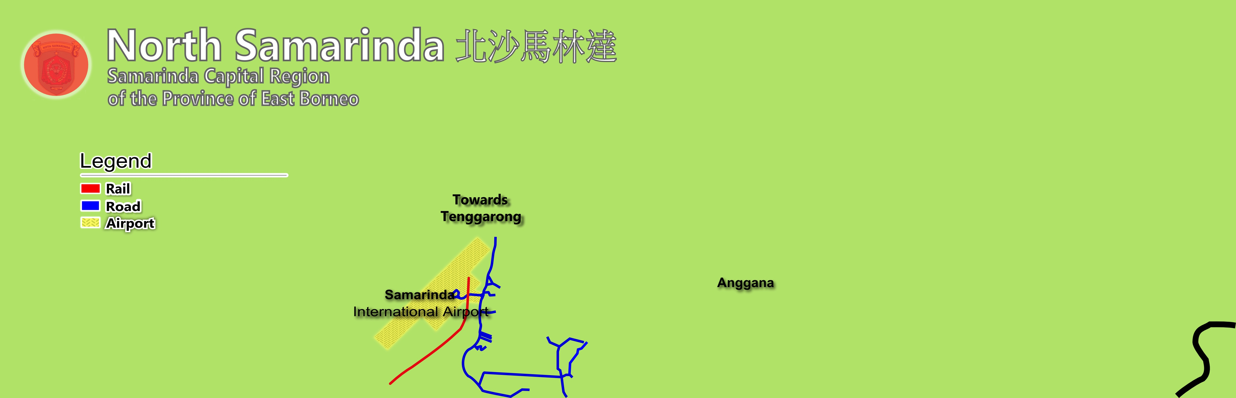 North Samarinda. "Concept Plan for North Samarinda" graphic drawn by mazta. First version released on 10 July 2013, this version released on 7 August 2013. Created for Wikipedia, the free encyclopedia. The latest image is located at Based on plans released by the Samarinda Civil Aviation Department in the middle of 2002.